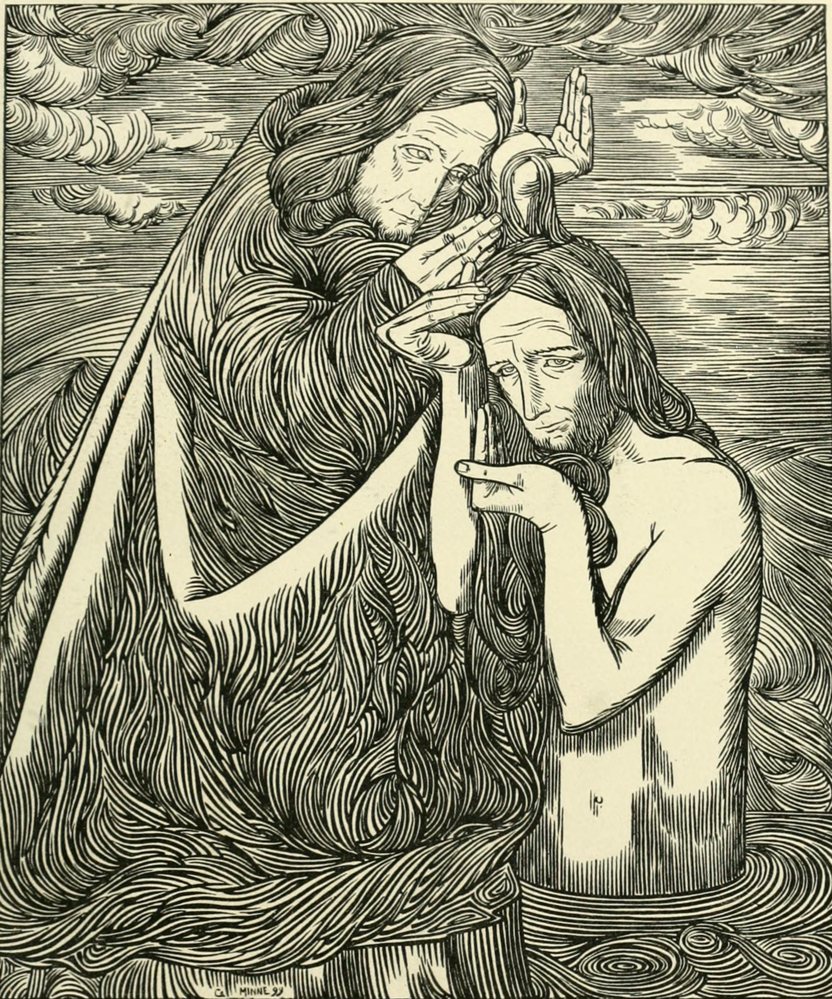 George Minne, The Baptism of Jesus, woodcut.